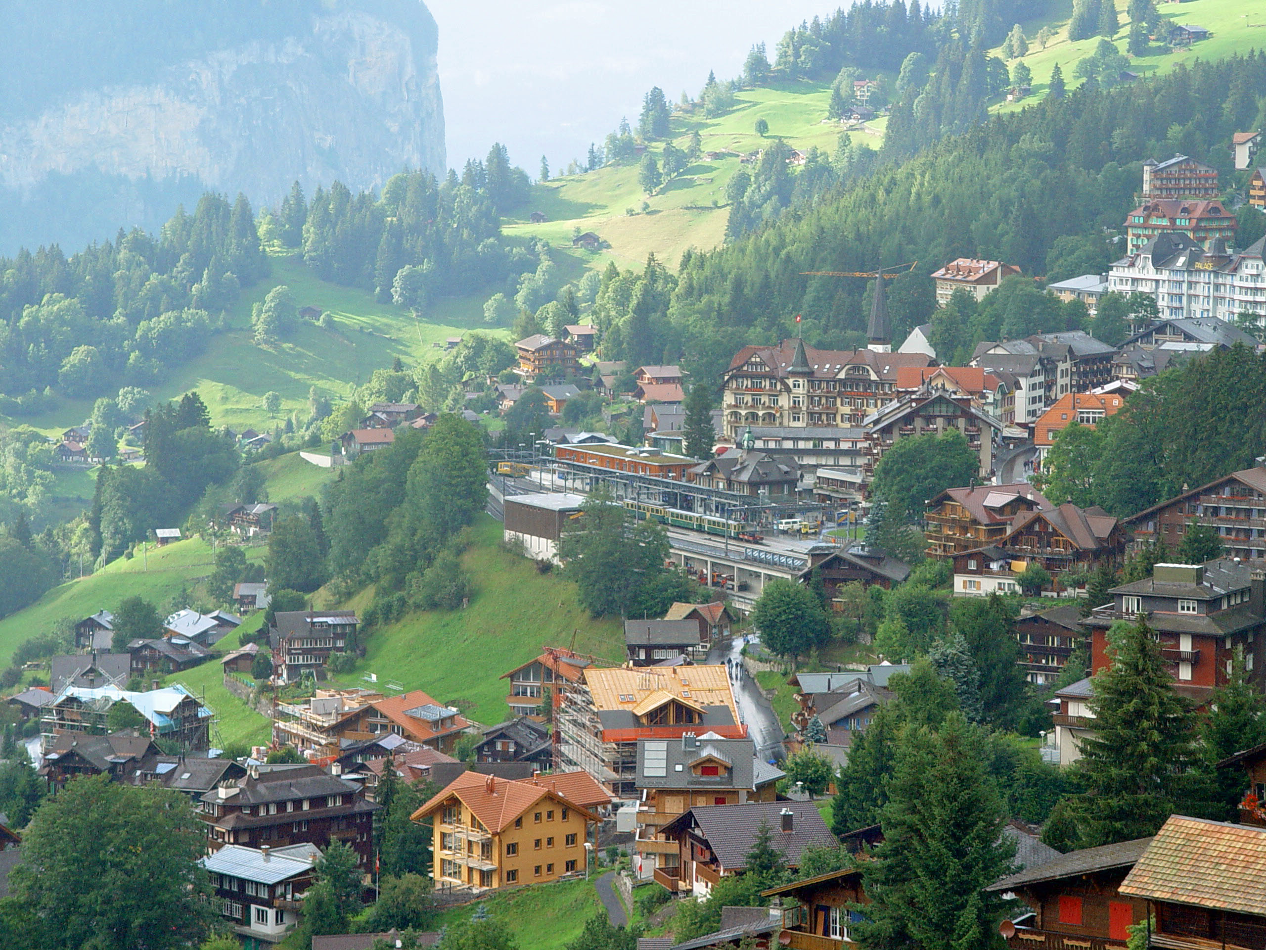 A picture of Wengen, Switzerland.